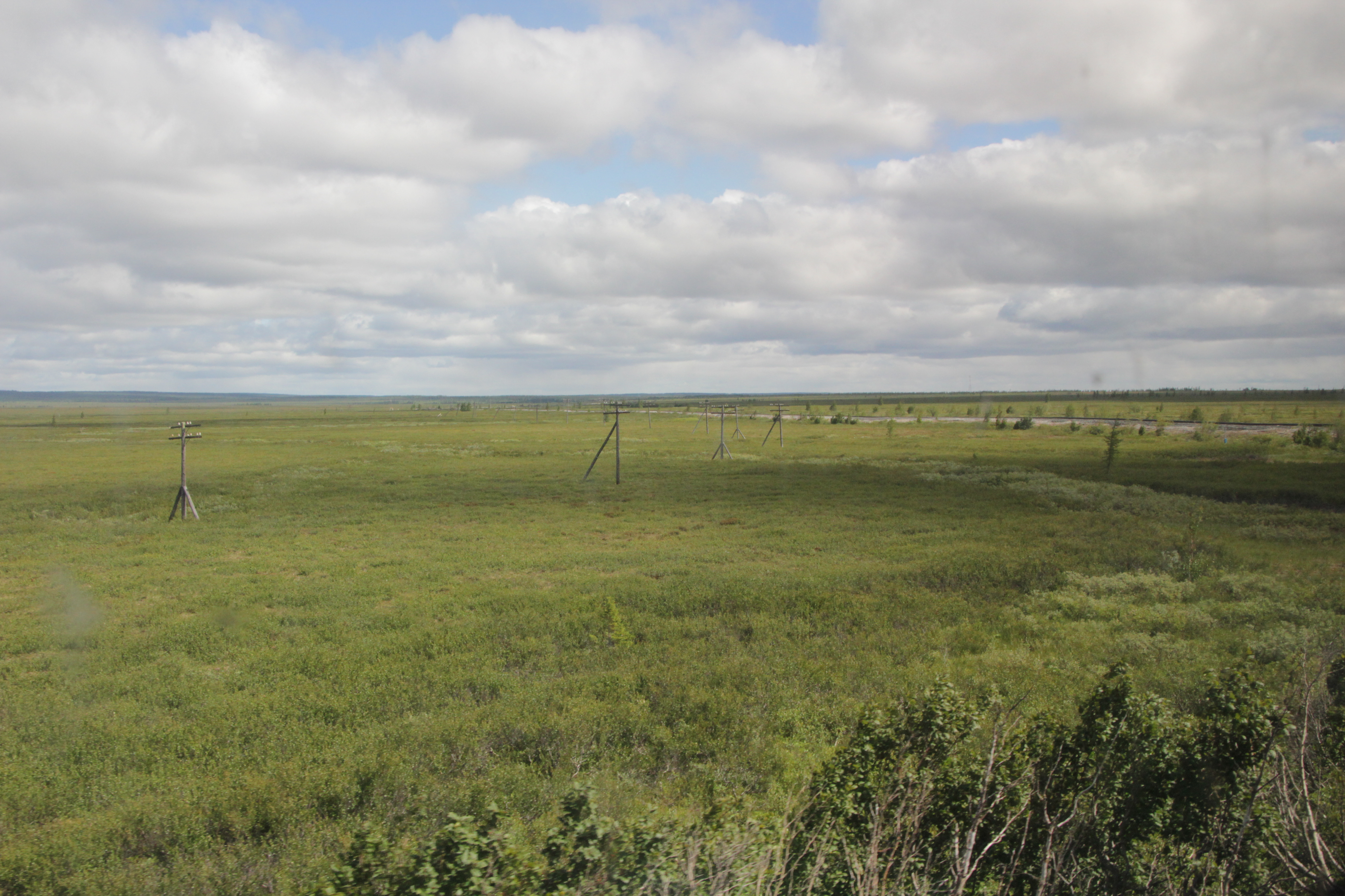 Transpolar railroad not far from Labytnangi, taken from a train to Vorkuta.